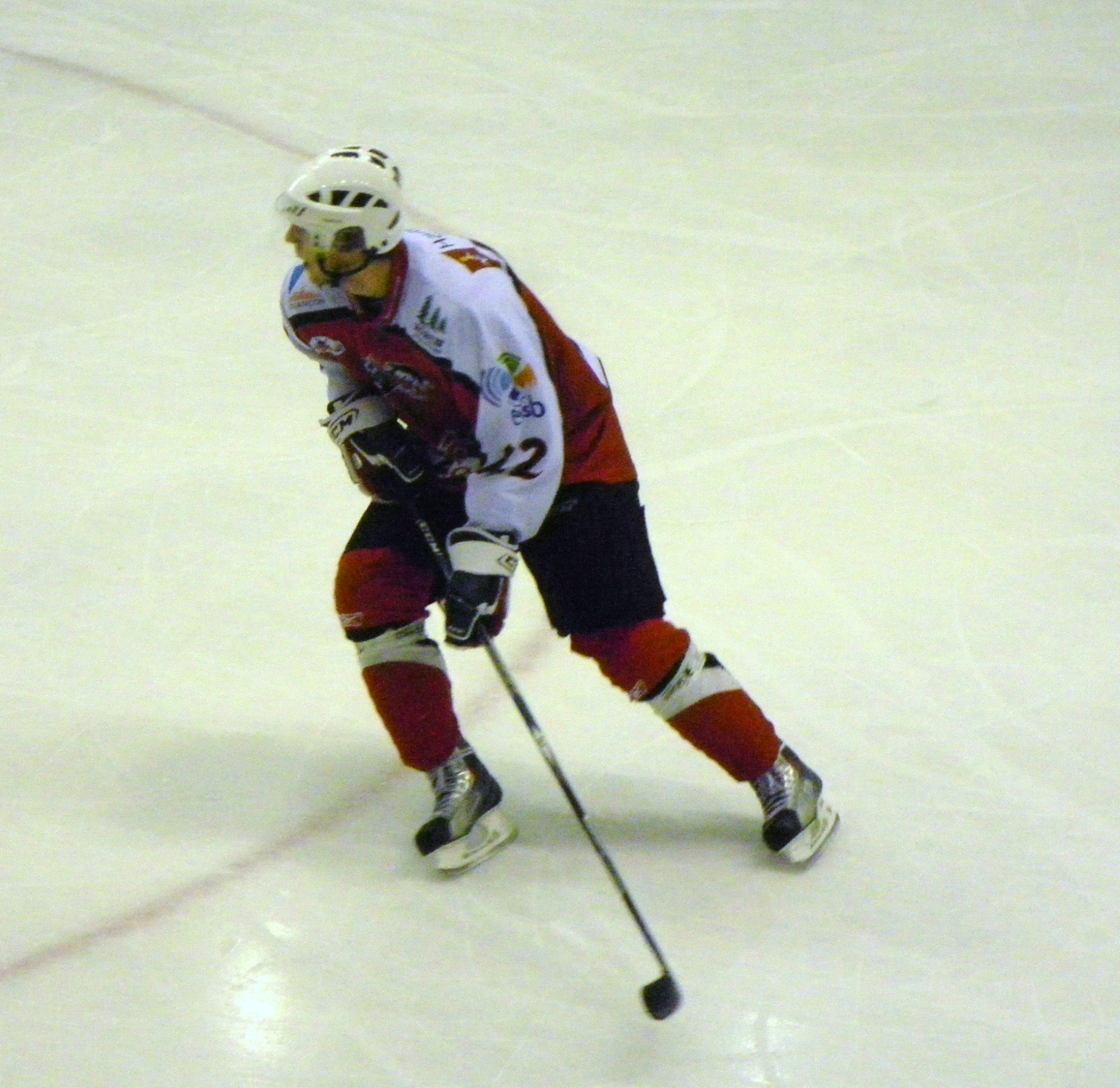 Jaka Ankerst, slovenian ice hockey player with Diables Rouges de Briançon